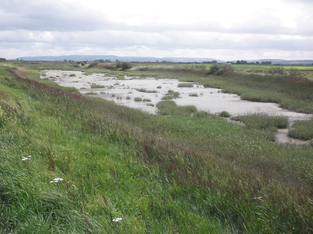 Tidal flood overspill pond, River Yeo